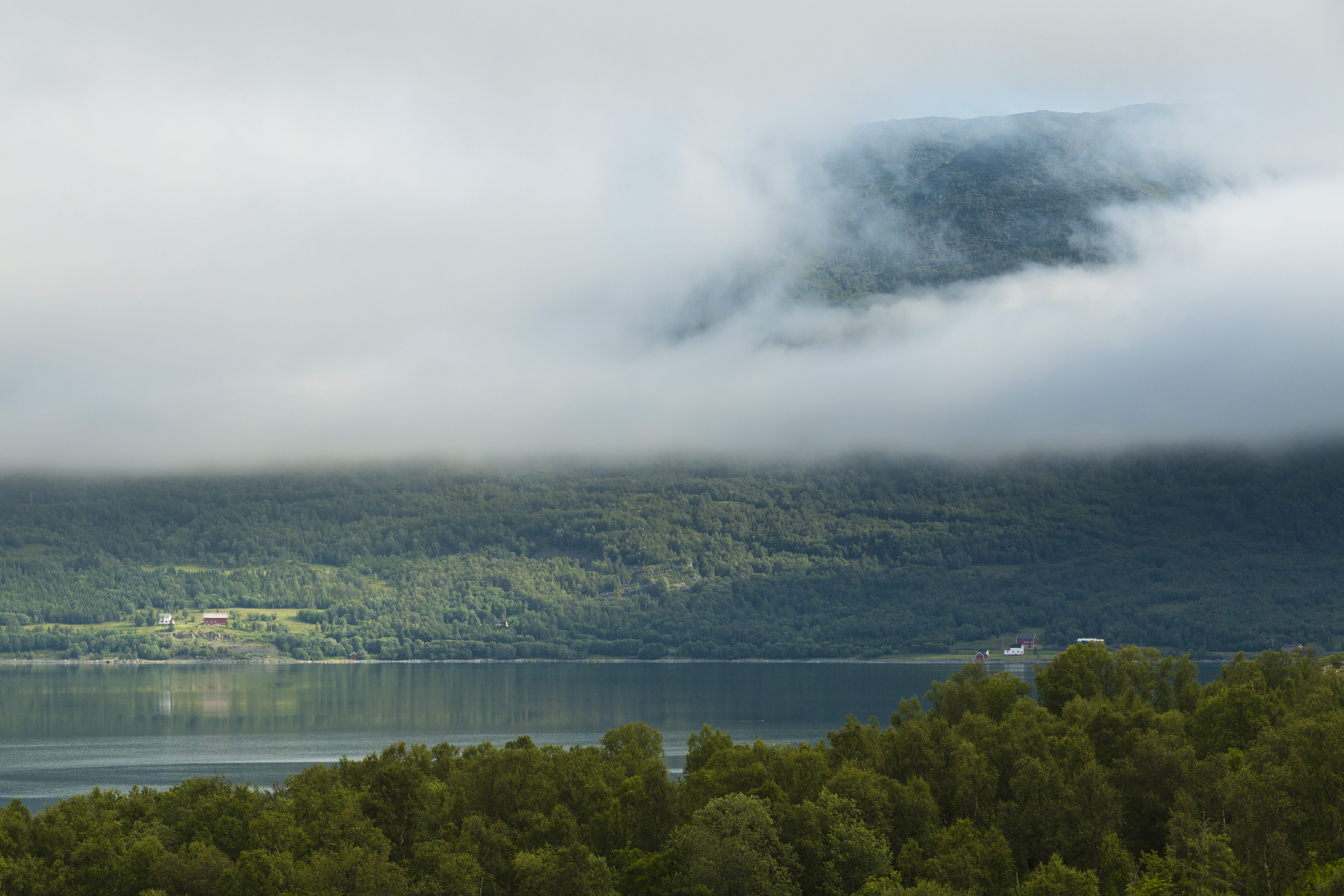 A layer of Stratus cloud above Badderfjorden as seen from Klubben in Kvænangen, Troms, Norway in 2014 August. The ridge in the background is located near by Daumannstinden.